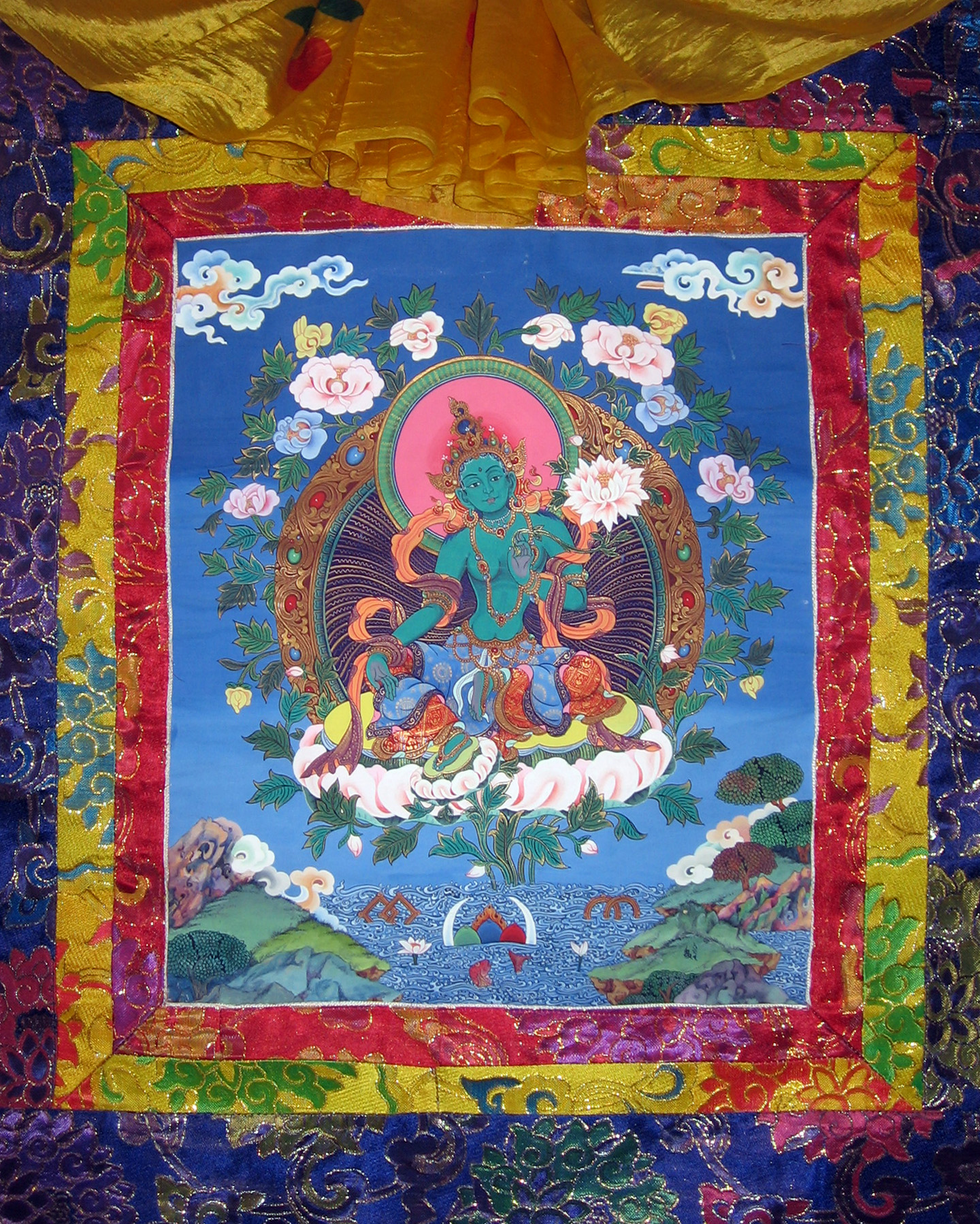 Paubha painting of Buddhist deity Waumha Tara (Green Tara) in the Newar style.